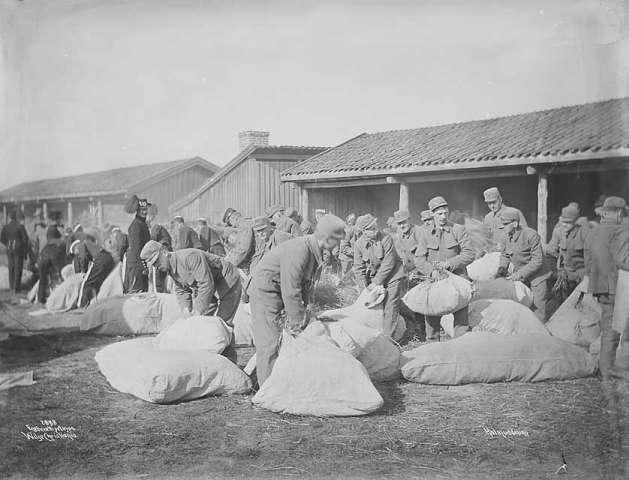 Soldiers working at Gardermoen